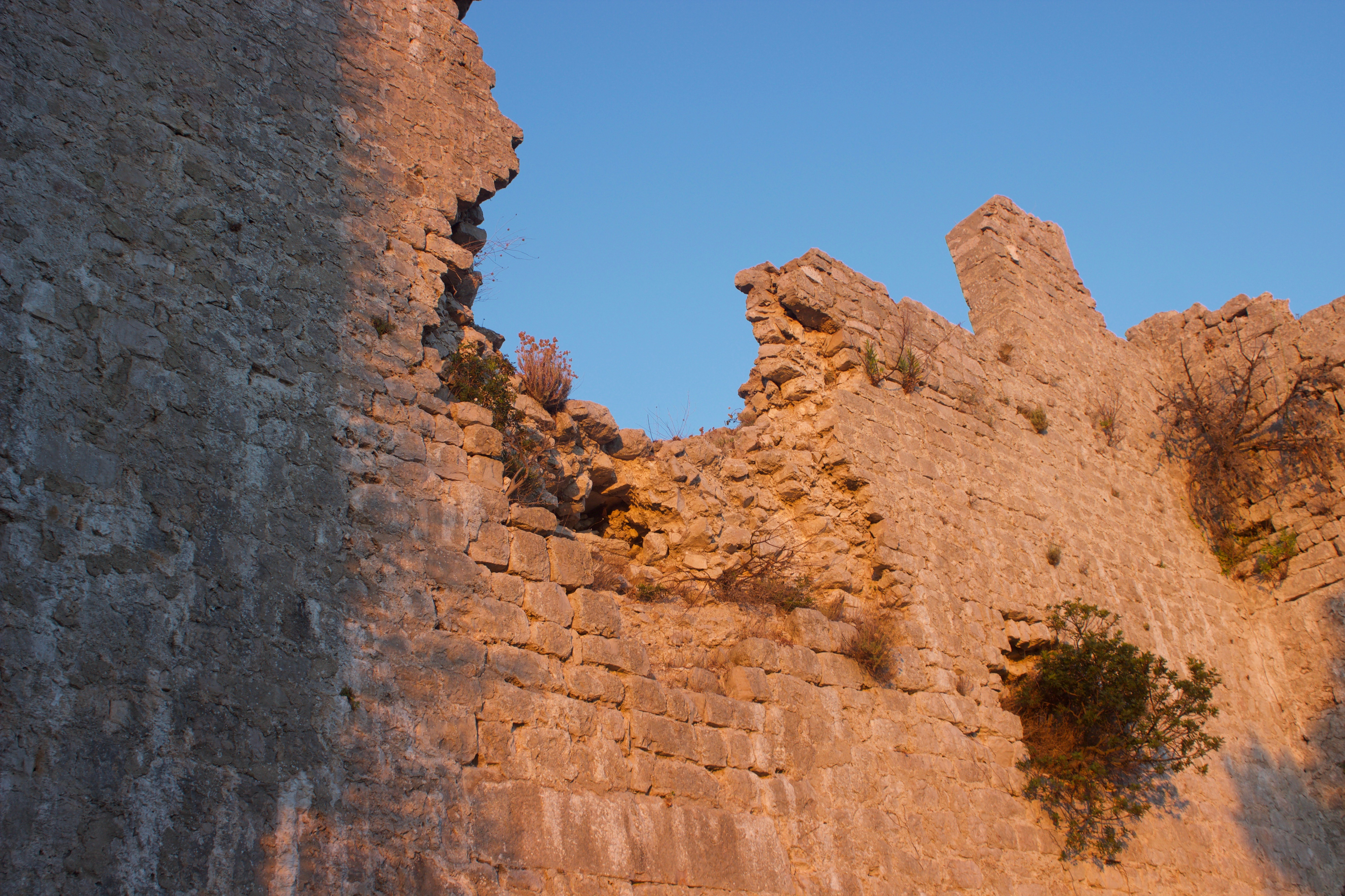 Fort St. Michael